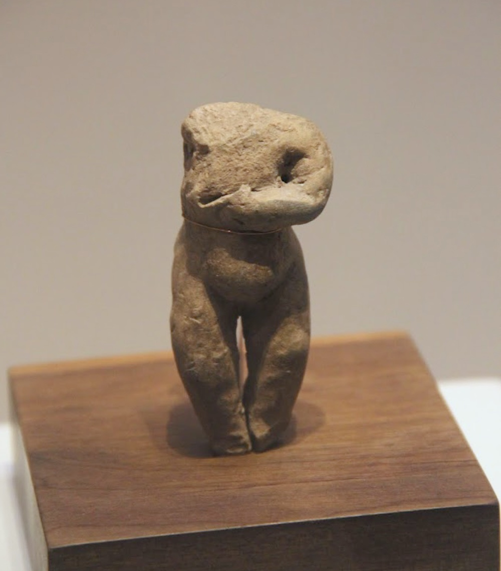 Neolithic pottery pregnant woman, 3500 BC, Hongshan Culture (4100-3000), Liaoning, 1982. H. 7.8 cm. Red brown terracotta. National Musem, Beijing